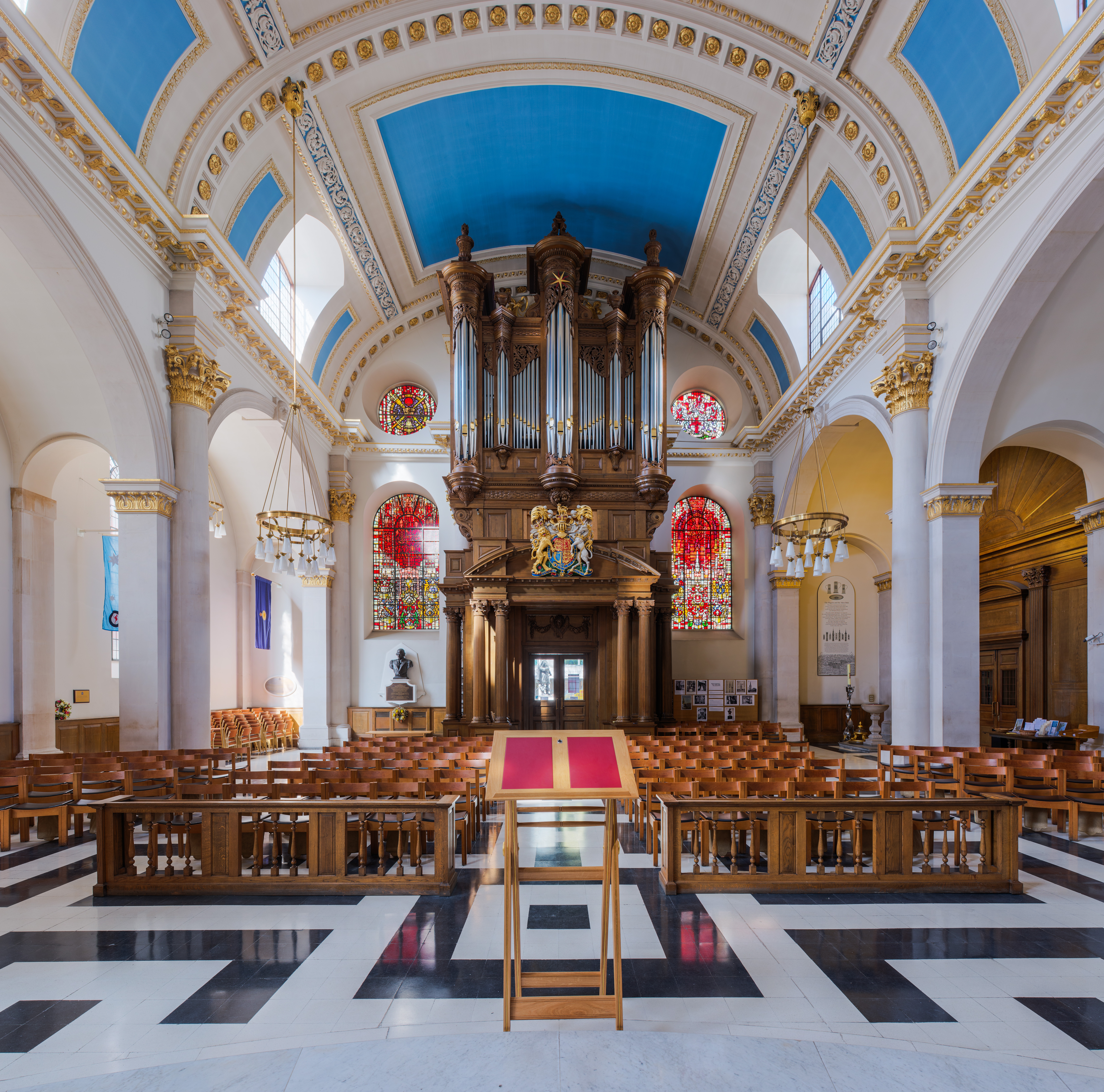 The interior of the St Mary-le-Bow Church, facing toward the organ and entrance.